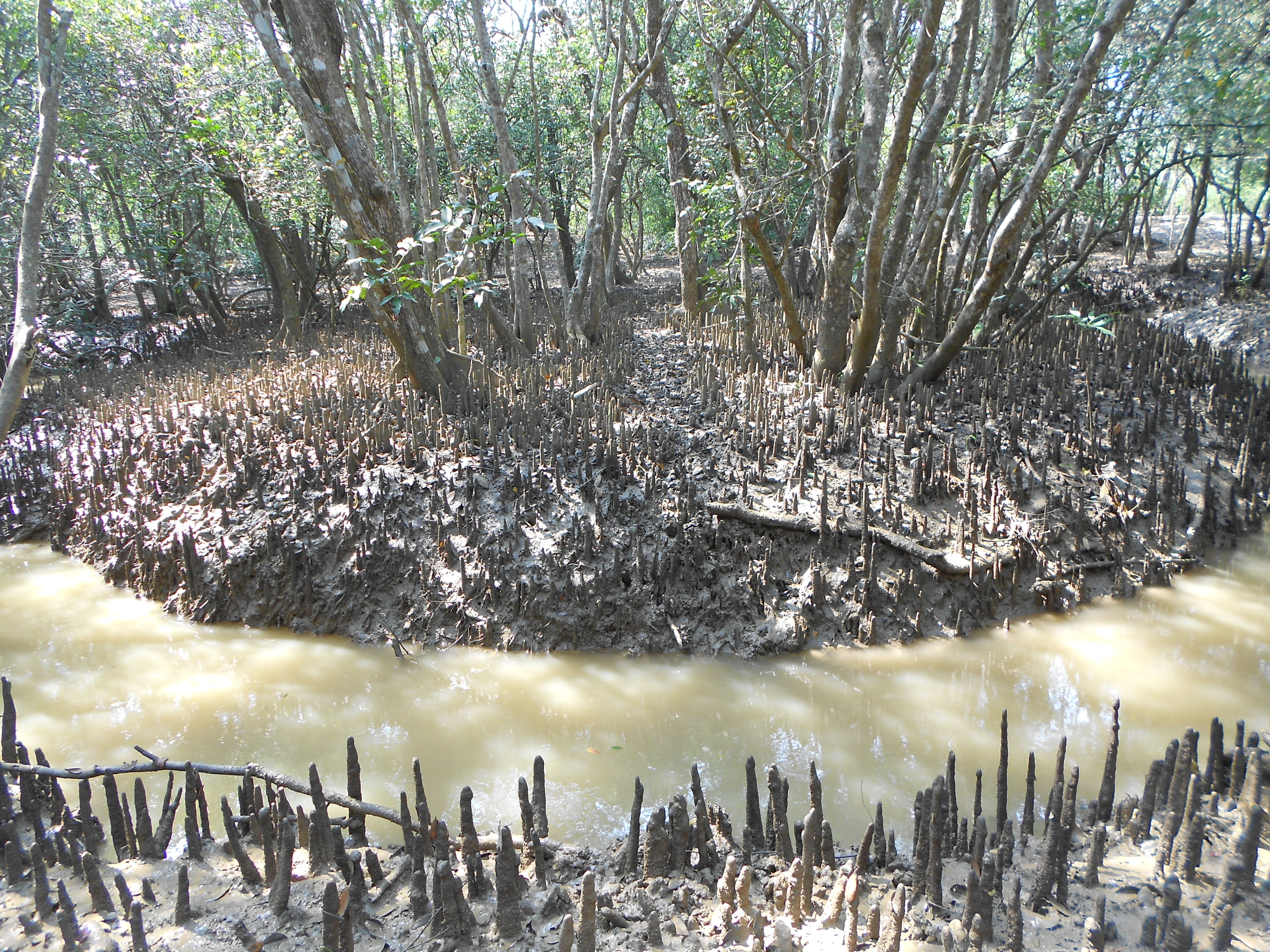 mangroves of BHITARKANIKA NATIONAL PARK. This is commonly known as HENTAL BANA